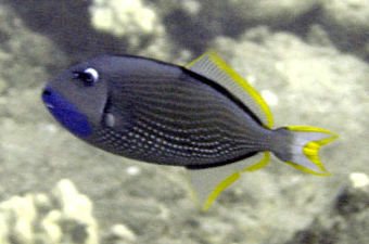 Photo of Gilded Triggerfish in Maui. Taken by flickr user erikogan on March 1, 2005. CC-BY-SA-2.0 as of 2007-03-03.